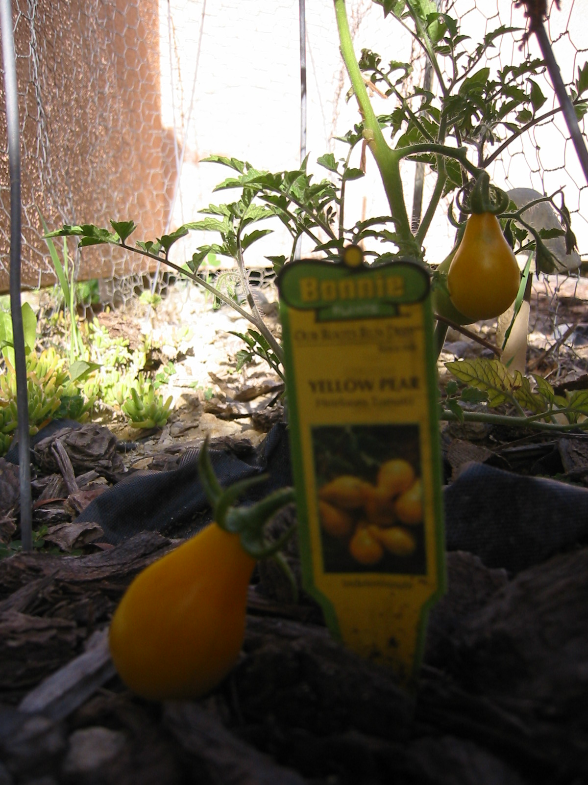 This is a picture of a Yellow Pear Tomato plant growing in my garden this year (2009).